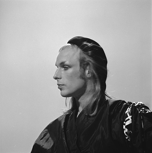 Brian Eno in AVRO's TopPop (Dutch television show) in 1974